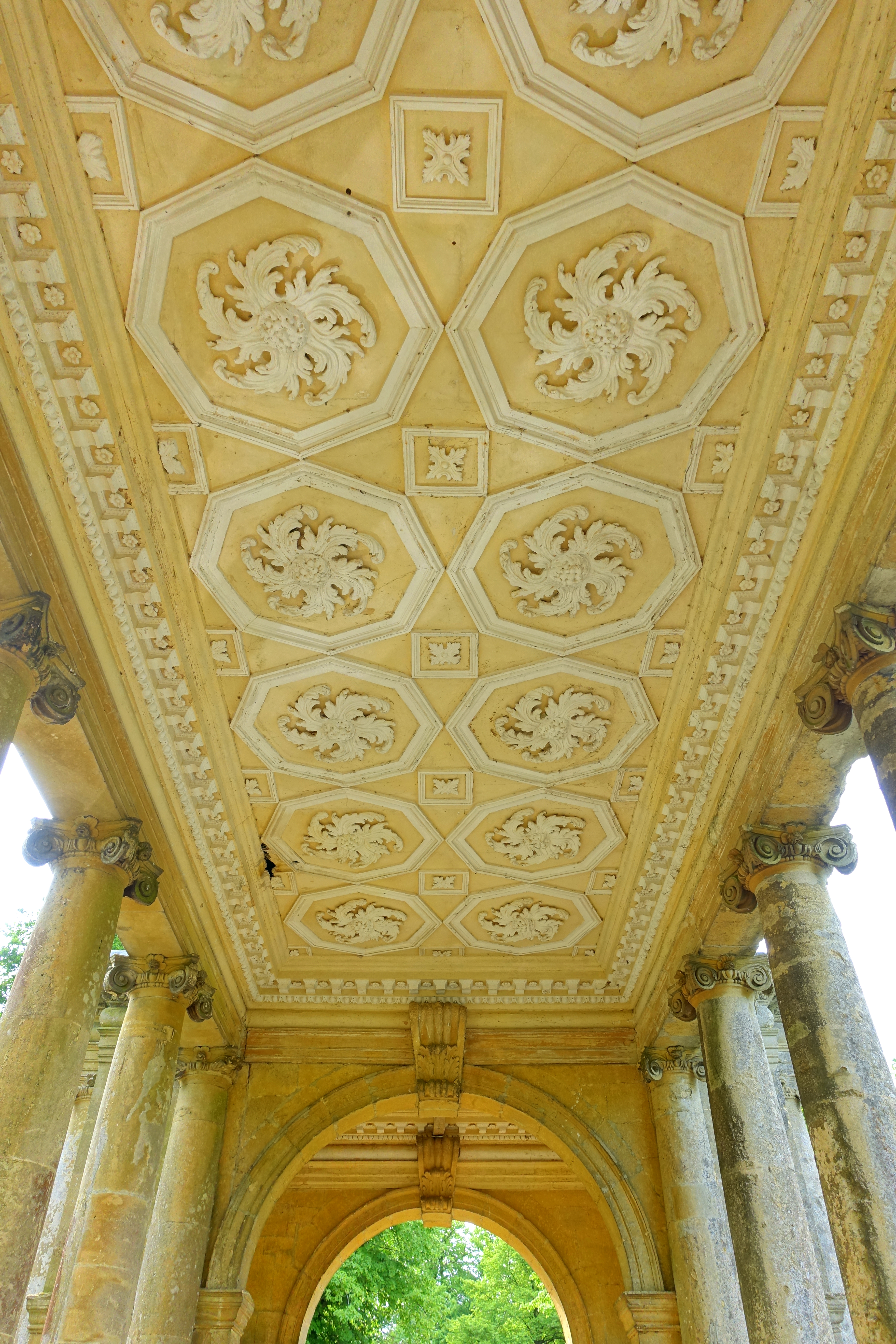 Palladian Bridge, Stowe - Buckinghamshire, England.